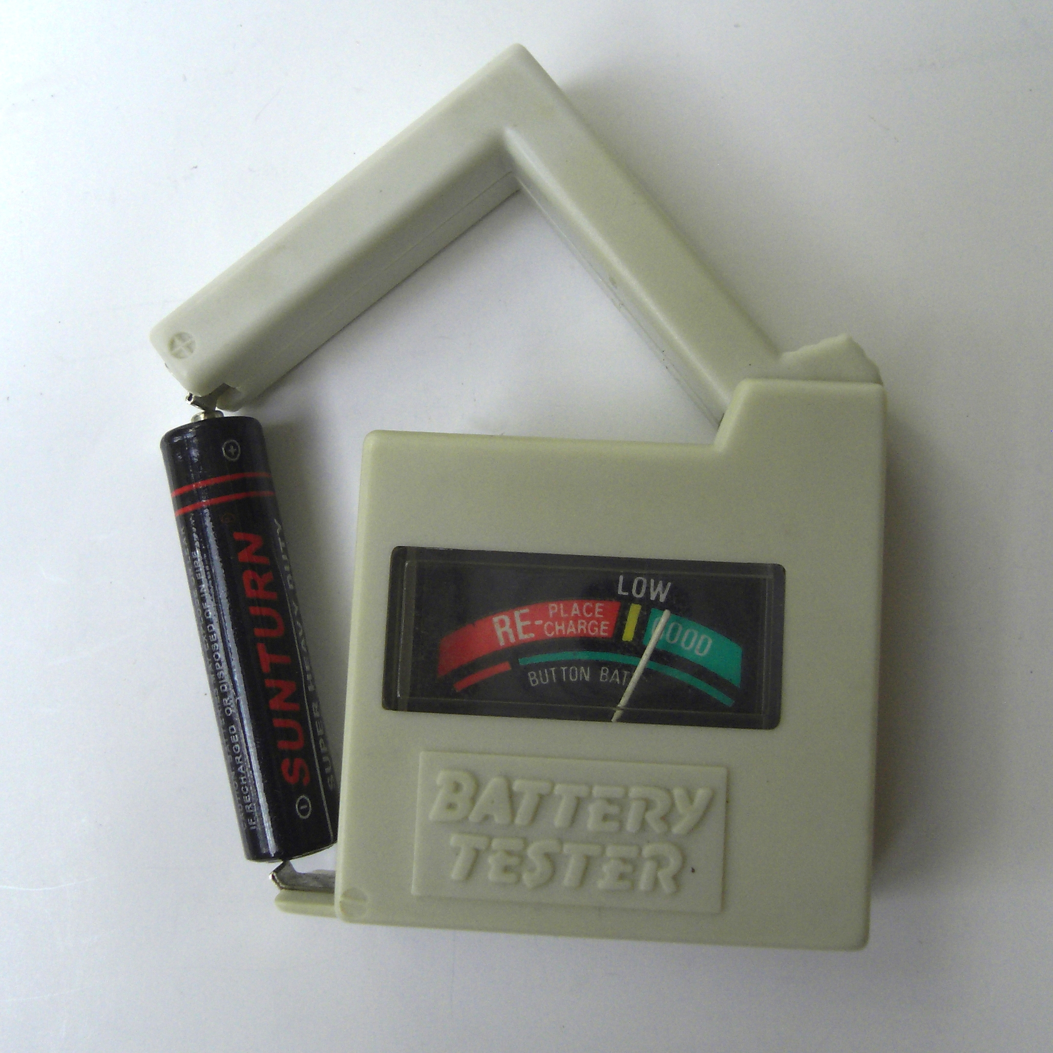 Simple battery tester